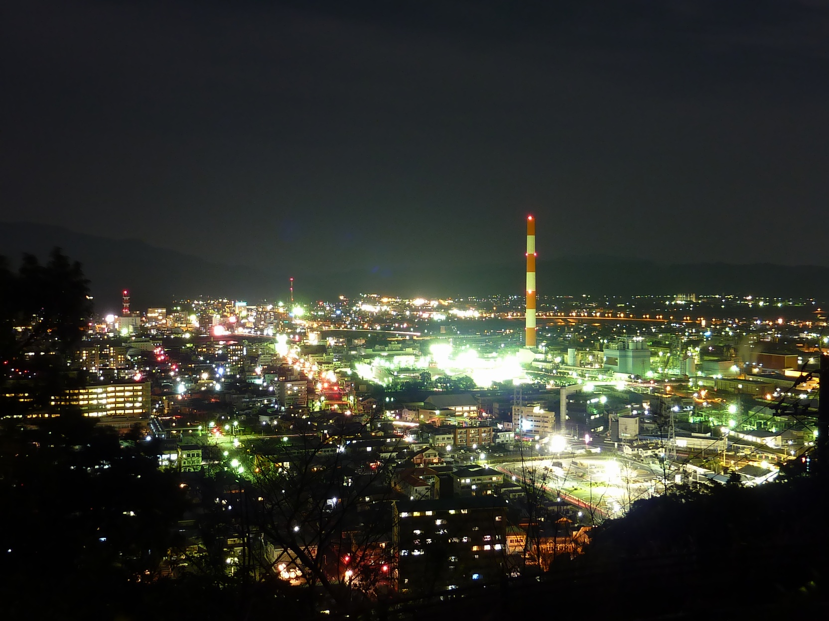 Night View of Nobeoka City from Mount Atago, Miyazaki Prefecture, Japan.